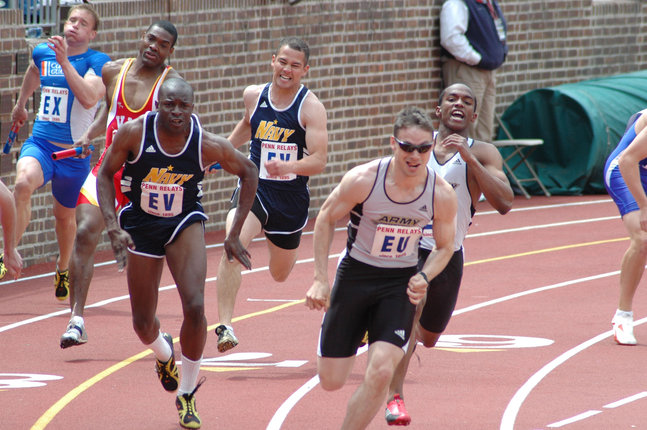 Philadelphia, Pa. (April 29, 2005) - The Army/Navy rivalry takes to the track in the 4X100 relay. Midshipman 1st Class Adriel Morgan, running the anchor leg, prepares to chase down Army as he awaits the baton from Midshipman 2nd Class Patrick Flores. Morgan and Flores along with other members of the U.S. Naval Academy's track and field team are competing in the University of Pennsylvania's "Penn Relays." The Penn Relays is the nation's oldest and largest track-and-field competition for U.S. high schools and colleges. U.S. Navy photo by Photographer's Mate 1st Class Matthew L. Romano (RELEASED)